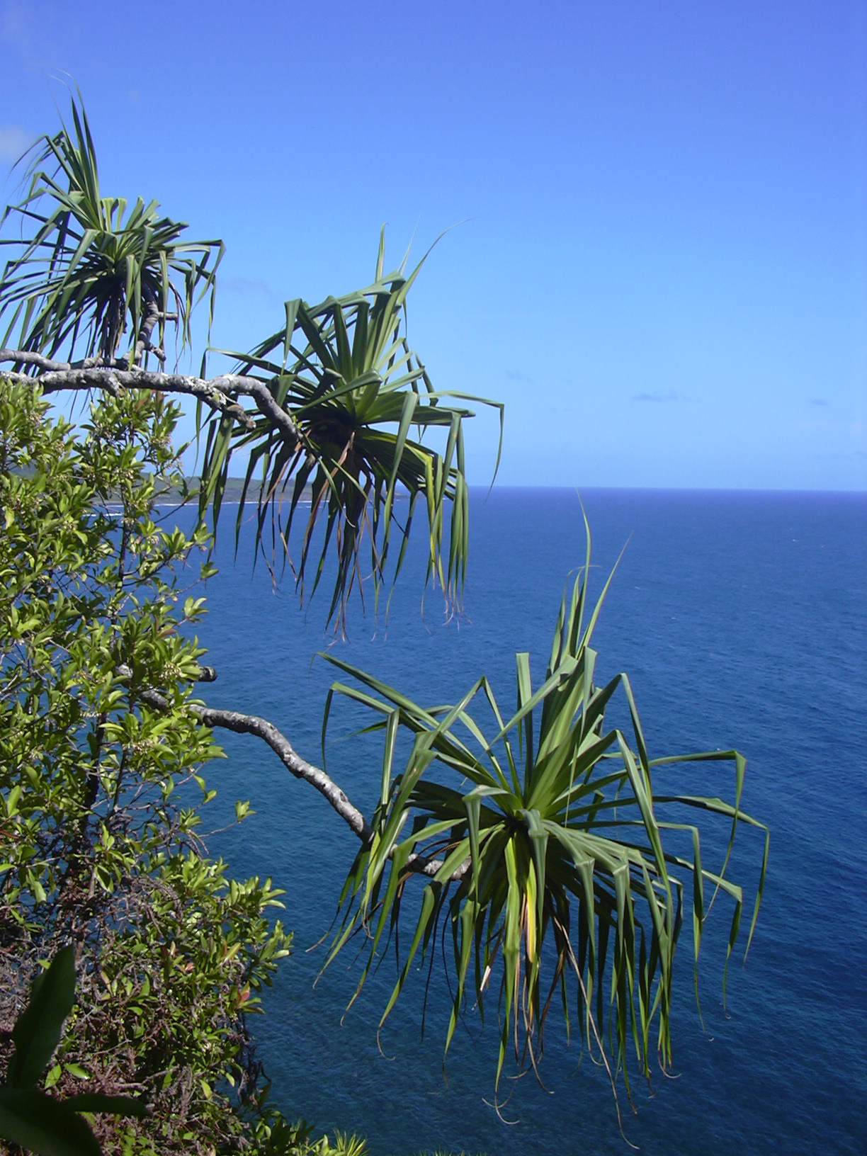 Pandanus tectorius (on coast). Location: Maui, Nahiku